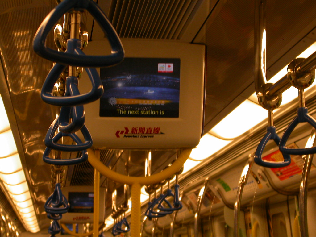 Taken on July 11, 2007 on SP1900 towards East Tsim Sha Tsui Direction Hong Kong, China